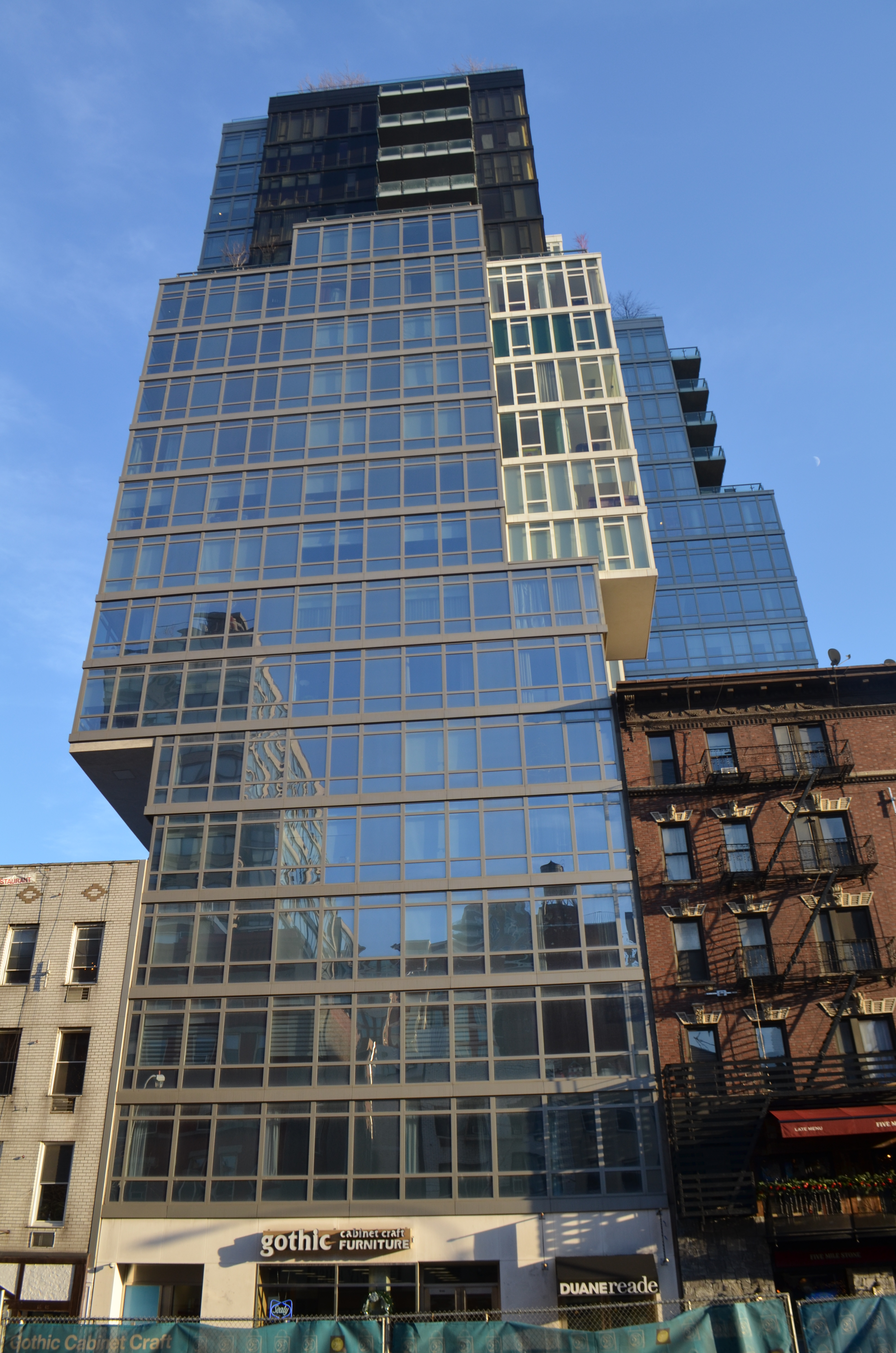 A building is cantilevered over two other buildings in New York City's Upper East Side.